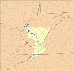 This is a map of the Kanawha River and its main tributary, the New River. I, Pfly, created it based on USGS data.